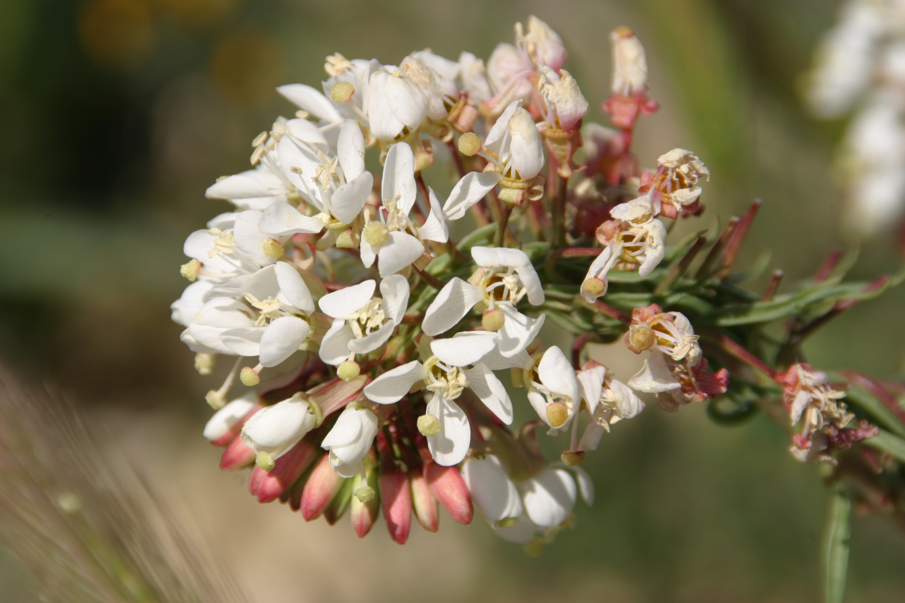 shredding evening primrose (Eremothera boothii ssp. decorticans)